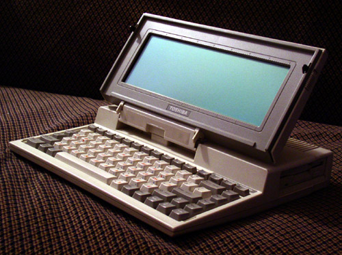 T1000 Toshiba computer from 1985